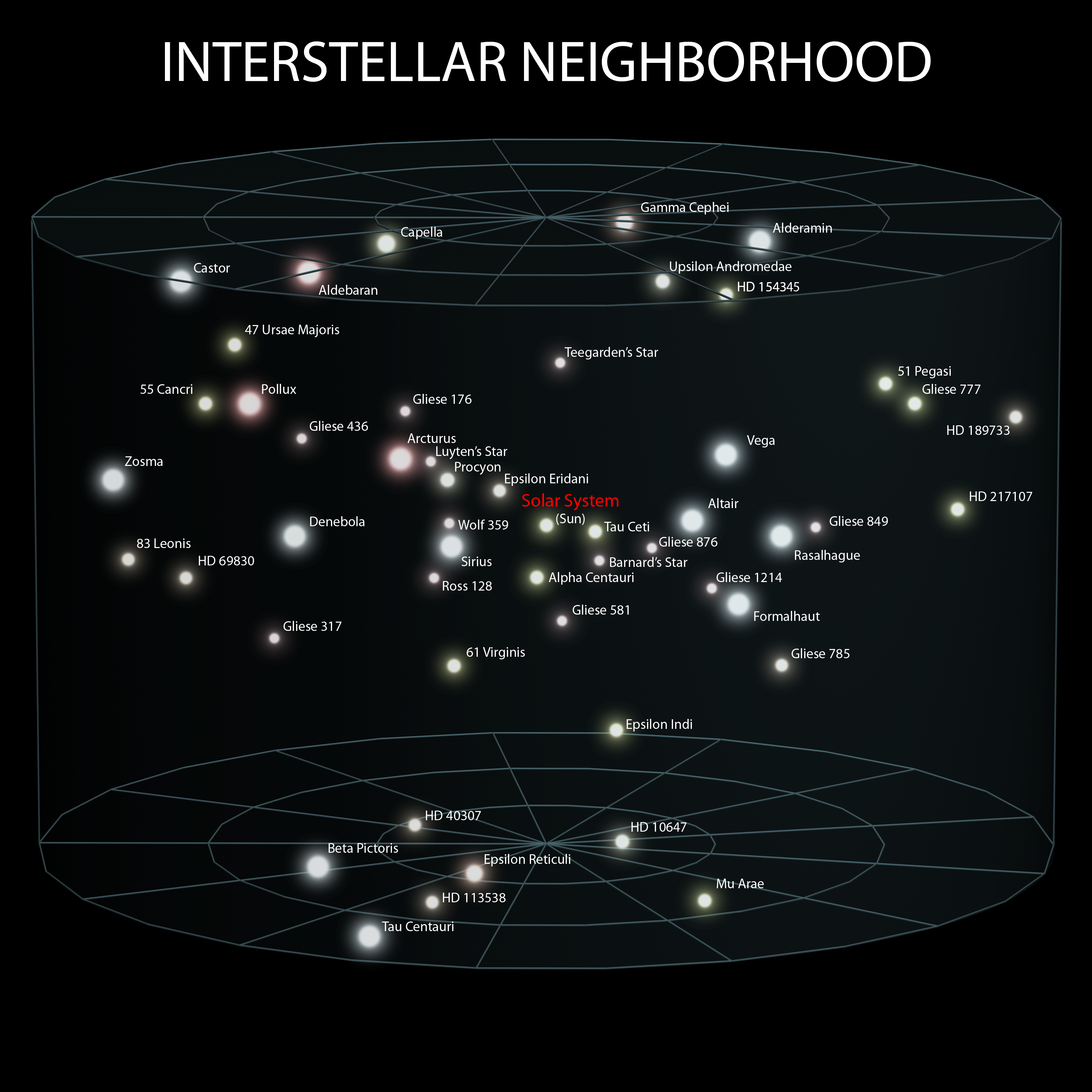 The full compilation of the image is located here: File:Earth's_Location_in_the_Universe_(JPEG).jpg NOTE: Please contact the author if requiring alterations or changes to the image for different language wiki's or for publication questions and concerns. I do ask that when redistributing my work, it be credited with the my name: Andrew Z. Colvin as I am the original author. I appreciate the cooperation and consideration of the Creative Commons Attribution-ShareAlike 3.0 Unported License and the GNU Free Documentation License agreements.